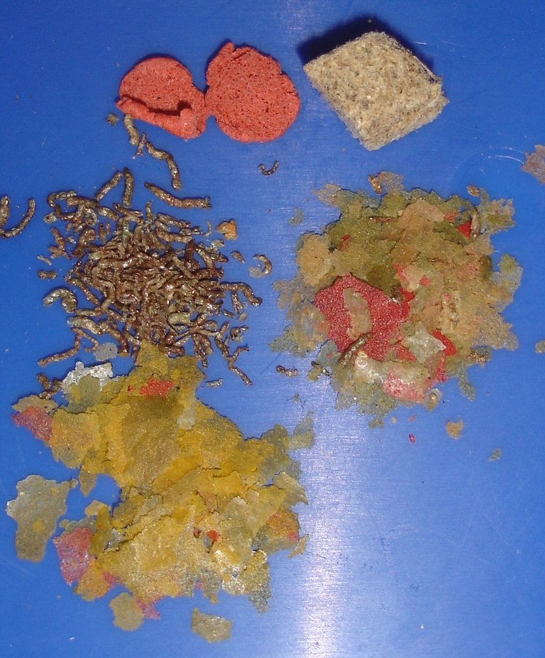 Aquarium - Dried foods for fishes